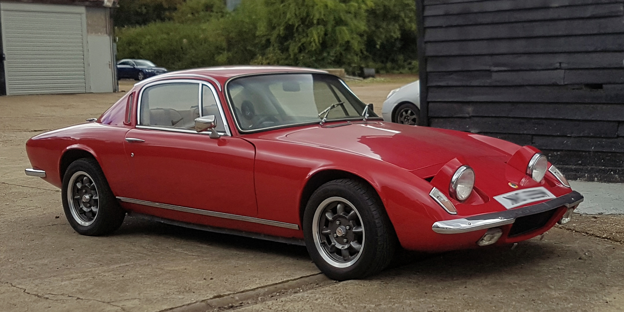 A front view of a 1973 M registration Lotus Elan +2S 130-5 in the civil parish of Hatfield Broad Oak in Essex, England.Camera: Samsung Galaxy S7 Edge.Software: JPEG file lens-corrected, optimized and converted with DxO OpticsPro 11 Elite, and further optimized with Adobe Photoshop CS2.